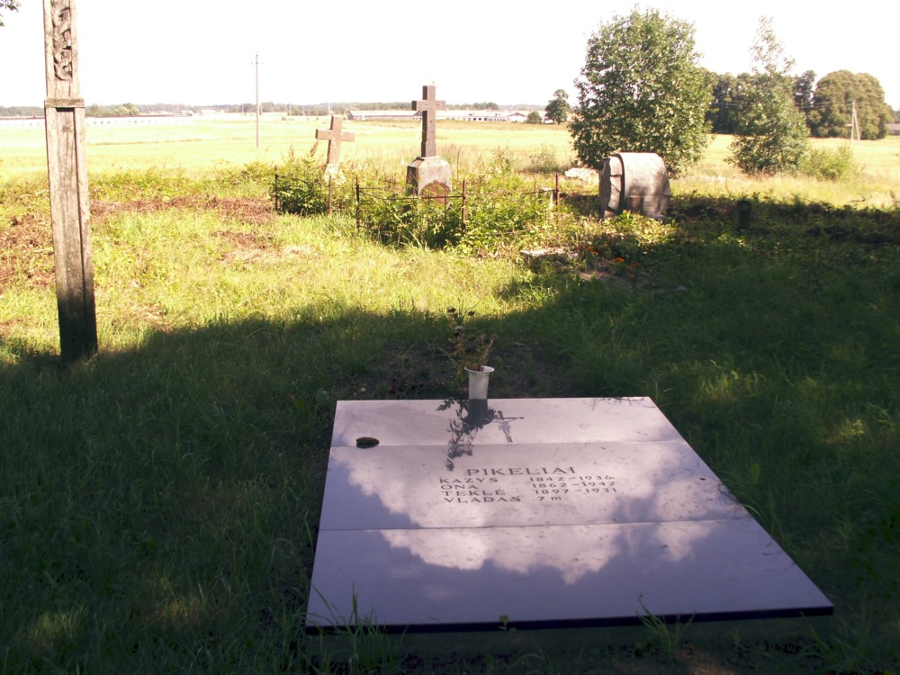 Beinoriškė, Šiauliai district, Lithuania